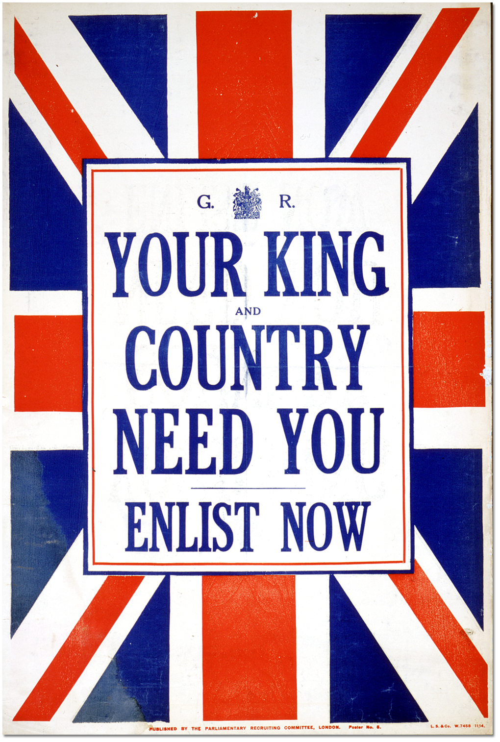 The predecessor to Lord Kitchener Wants You